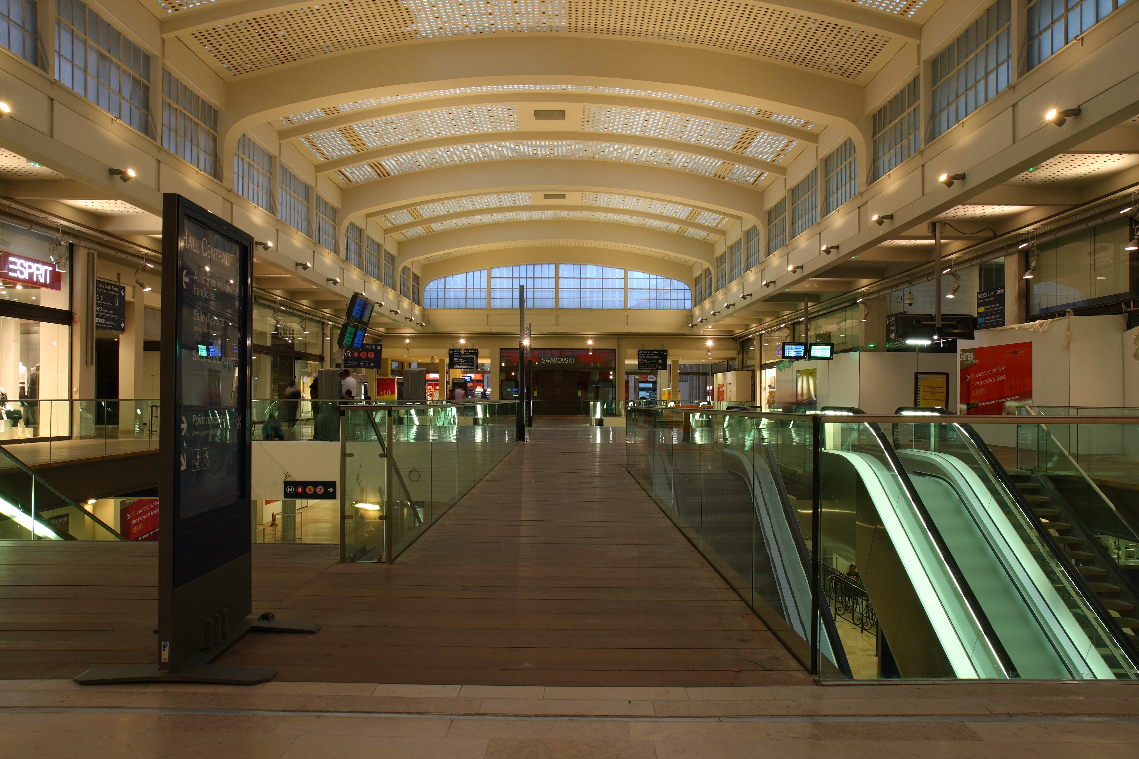 Renovated hall of the East station (Gare de l'Est), in Paris.